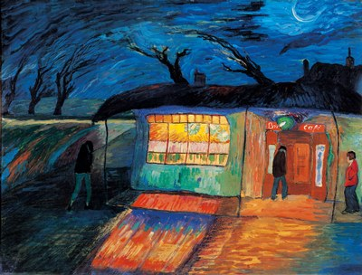 Marianne von Werefkin: Sturmwind, c. 1915-17, Oil on 47 x 62 cm